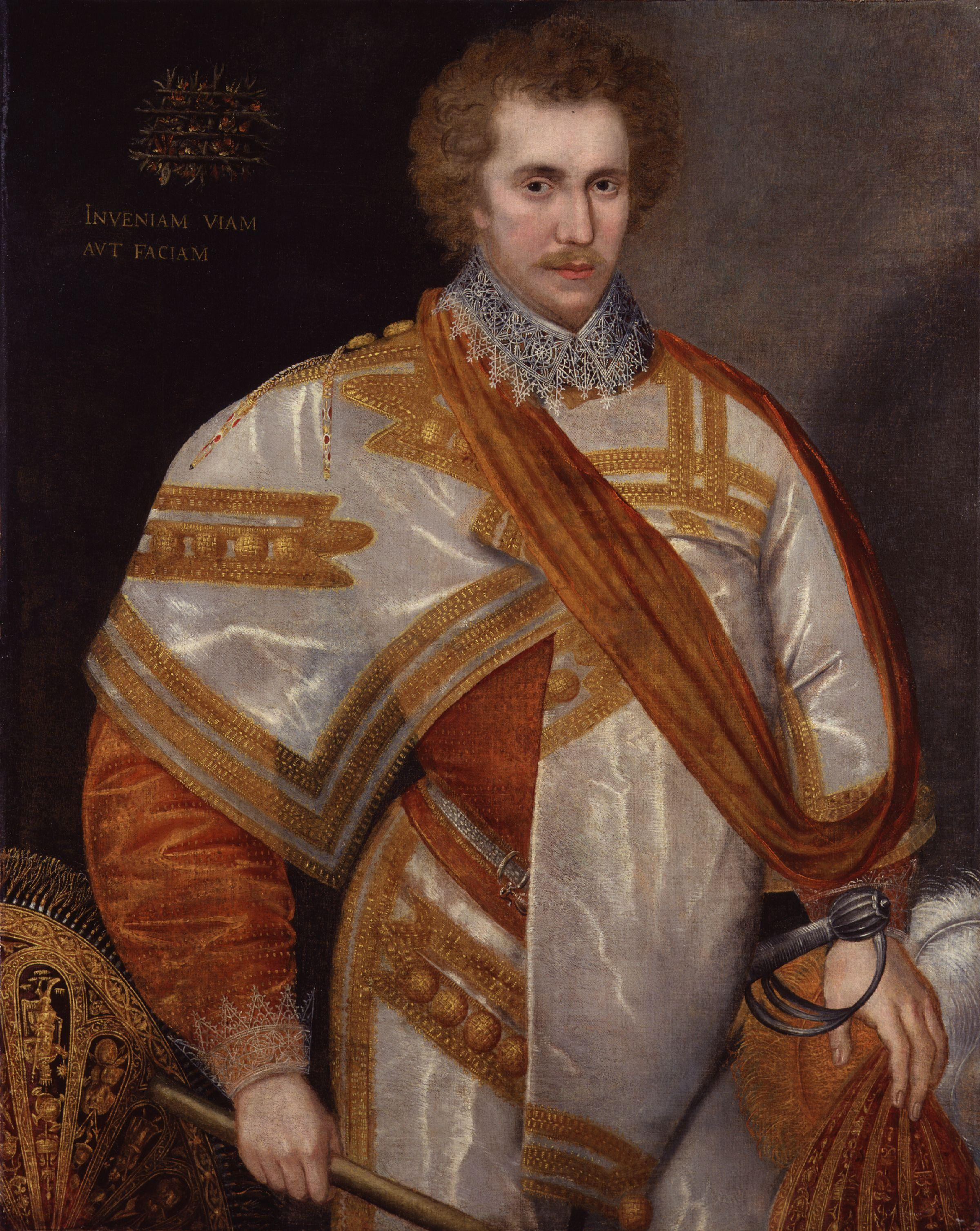 He is wearing a loose jacked called a mandilion "Colley-Westonward" or with the sleeves hanging down in front and back.